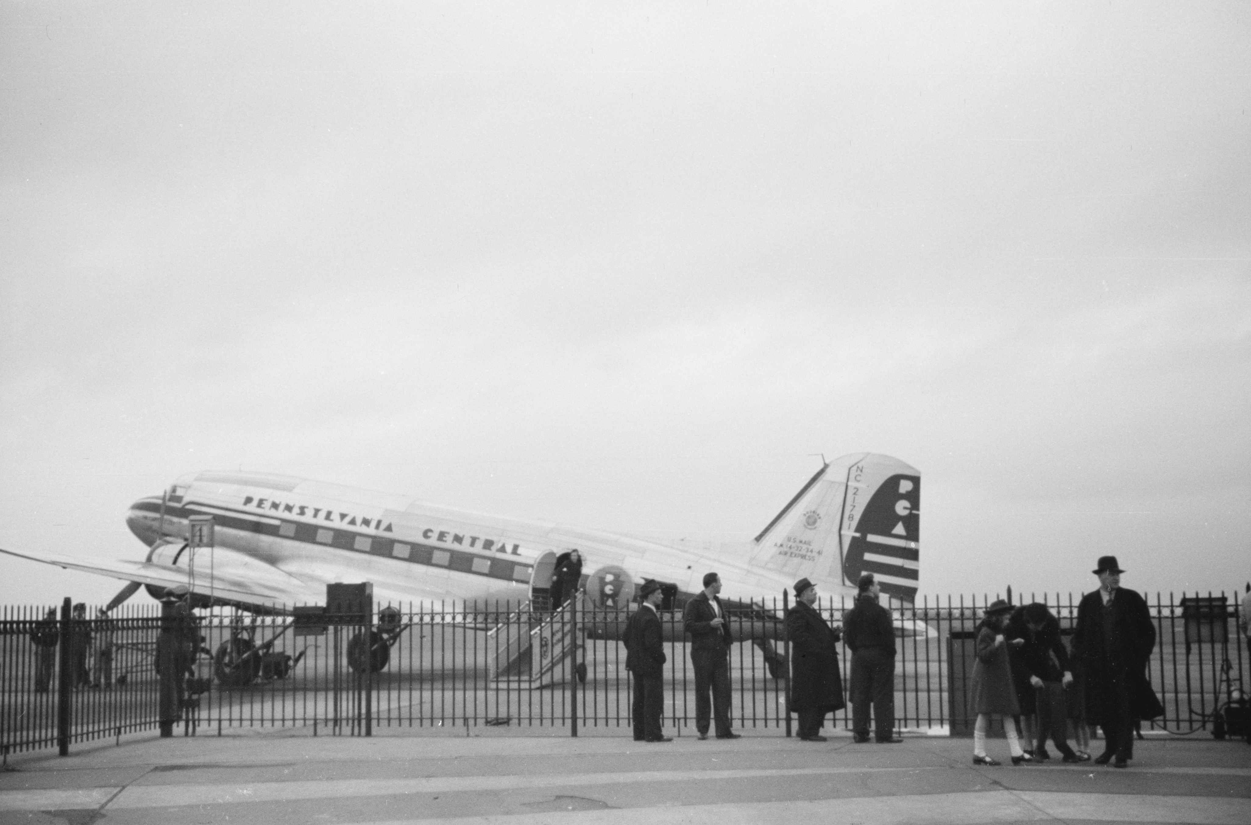 DC-3 (NC21781) of Pennsylvania Central Airlines